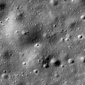 Lunar craters Nicolya (the biggest, in upper left) and Vasya (smaller and very diffuse, under the center). Photo by Lunar Reconnaissance Orbiter. Image width is 245 meters. In upper part of Vasya track of Lunokhod 1 can be seen.